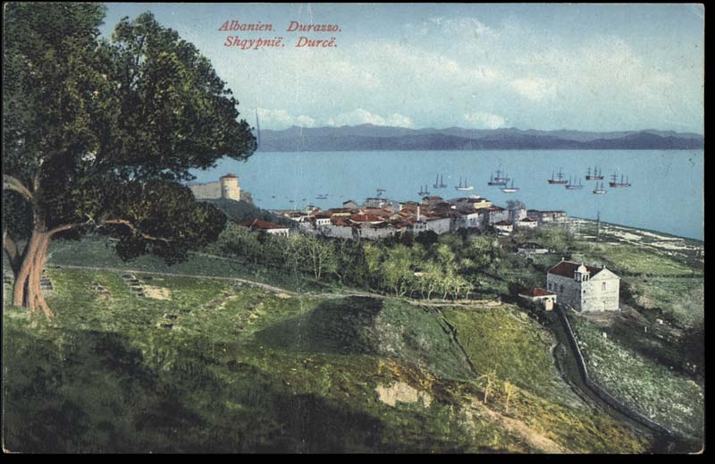 Duress